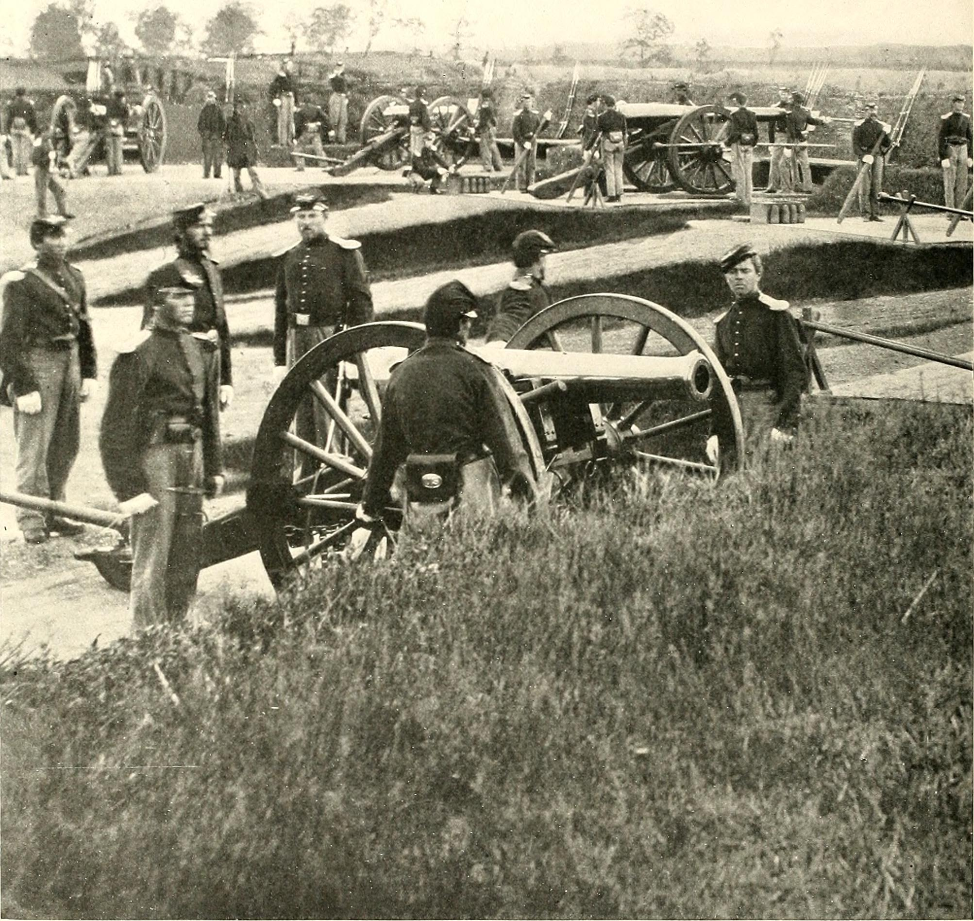 Title: The photographic history of the Civil War : in ten volumes Year: 1911 (1910s) Authors: Miller, Francis Trevelyan, 1877-1959 Lanier, Robert S. (Robert Sampson), 1880- Subjects: War photography Publisher: New York : Review of Reviews Co. Text Appearing Before Image: AFTER THE ATTEMPT ON SUMTER—THIRD NEW YORK LIGHT ARTILLERY Text Appearing After Image: NAlOLEON GUN IN BATTERY NO. 2, FORT WHIPPLE The lush, wa\ing grass beautifies this Union fort, one of the finest examples of fortification near Washington. The piecesof ordnance are in splendid condition. The men at the gims are soldierly but easy in their attitudes. They are evidentlywell-drilled crews. The forked pennant of the artillery flies defiantly above the parapet. But there are no longer any Con-federates to defy. The nation is again under one flag, as former Confederate leaders proved by leading Union troops to victory in 1898.Fort A^Tiipple was a mile and a half southwest of the Virginia end of the Aqueduct bridge. It was a semi-permanent field work,completely closed, having emplacements for forty-one heavy guns. The gun in the foreground is a 12-pounder smooth-bore, a Napo- ■^ ■9